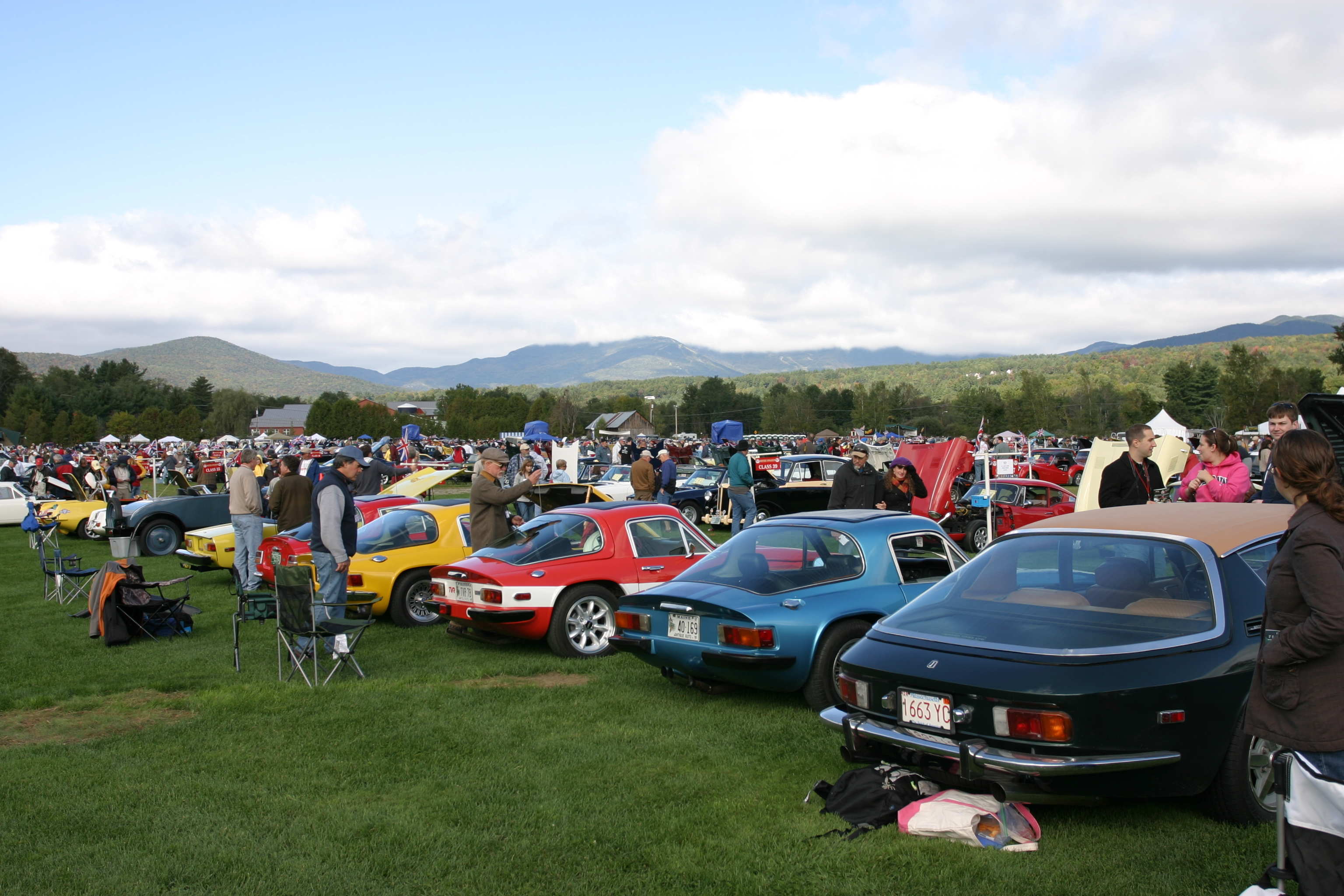 The show field at British Invasion in Stowe, Vermont, in 2009. In the foreground are a Jensen Interceptor and several TVR coupes.